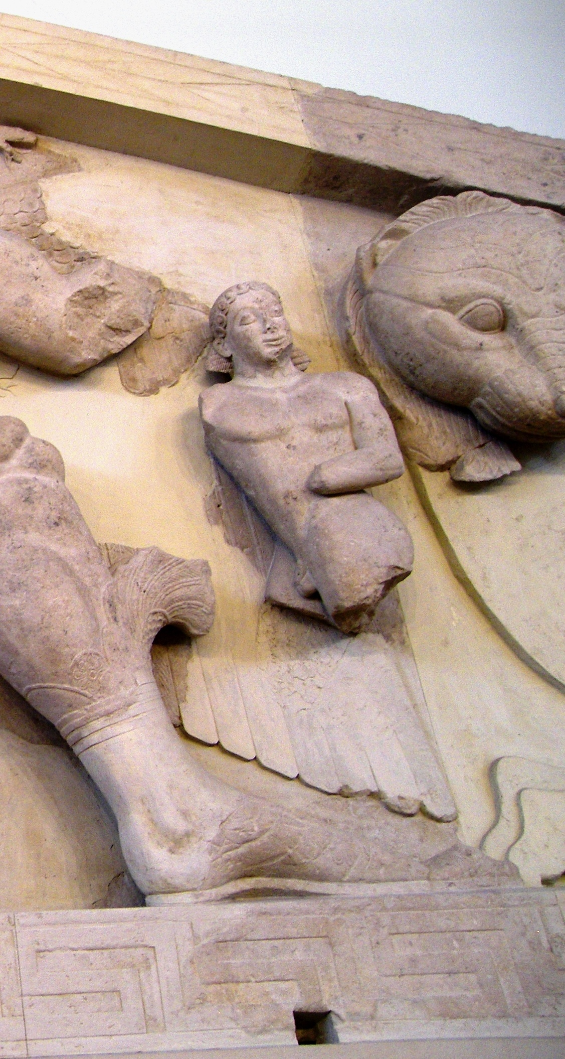 File:Close up of Gorgon at the pediment of Artemis temple in Corfu.jpg Close up of Khrysaor at the pediment of Artemis temple in Corfu